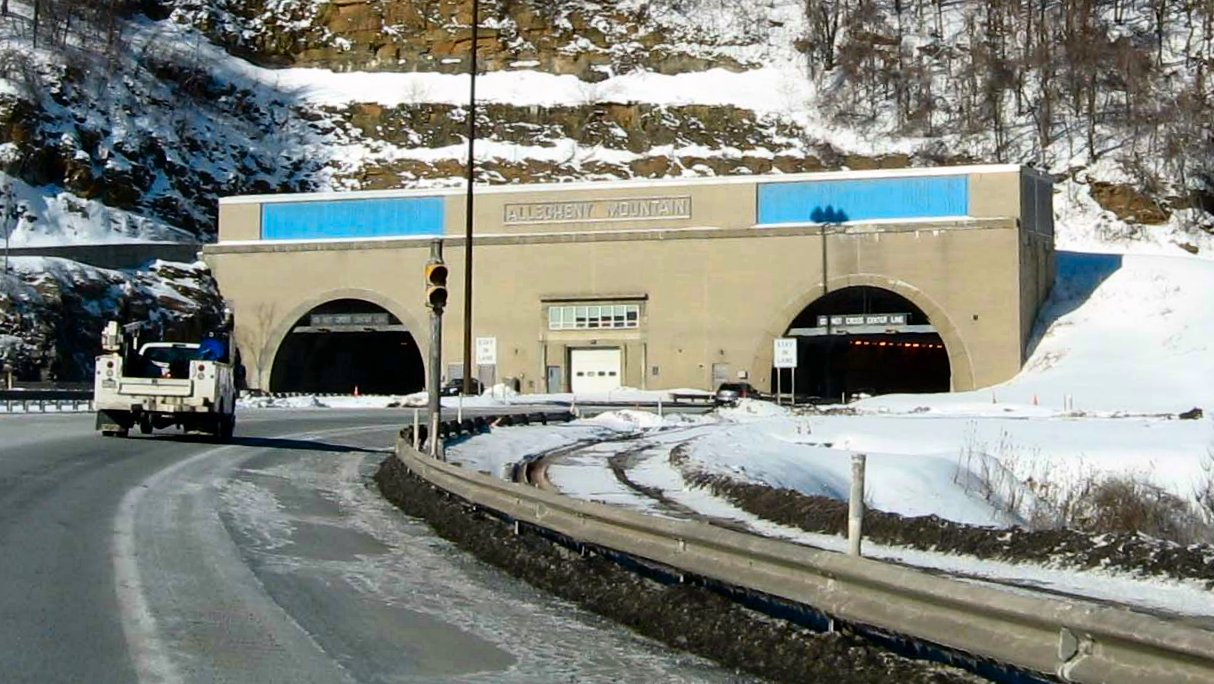 East entrance to the Allegheny Mountain Tunnel.